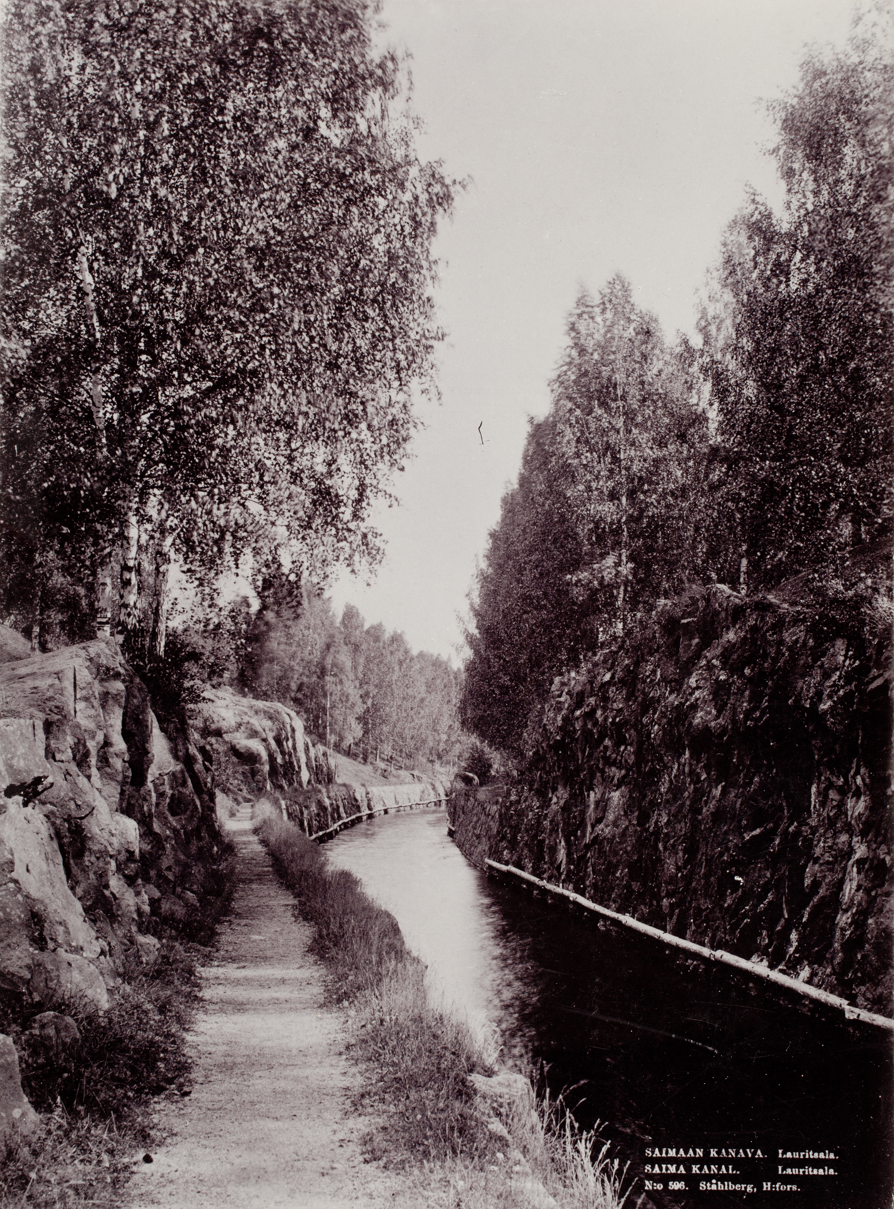 Saima kanal, Lauritsala (16,5x22,3 cm) på kartong Foto: Atelier K. E. Ståhlberg Helsingfors, Finland Svenska litteratursällskapet i Finland